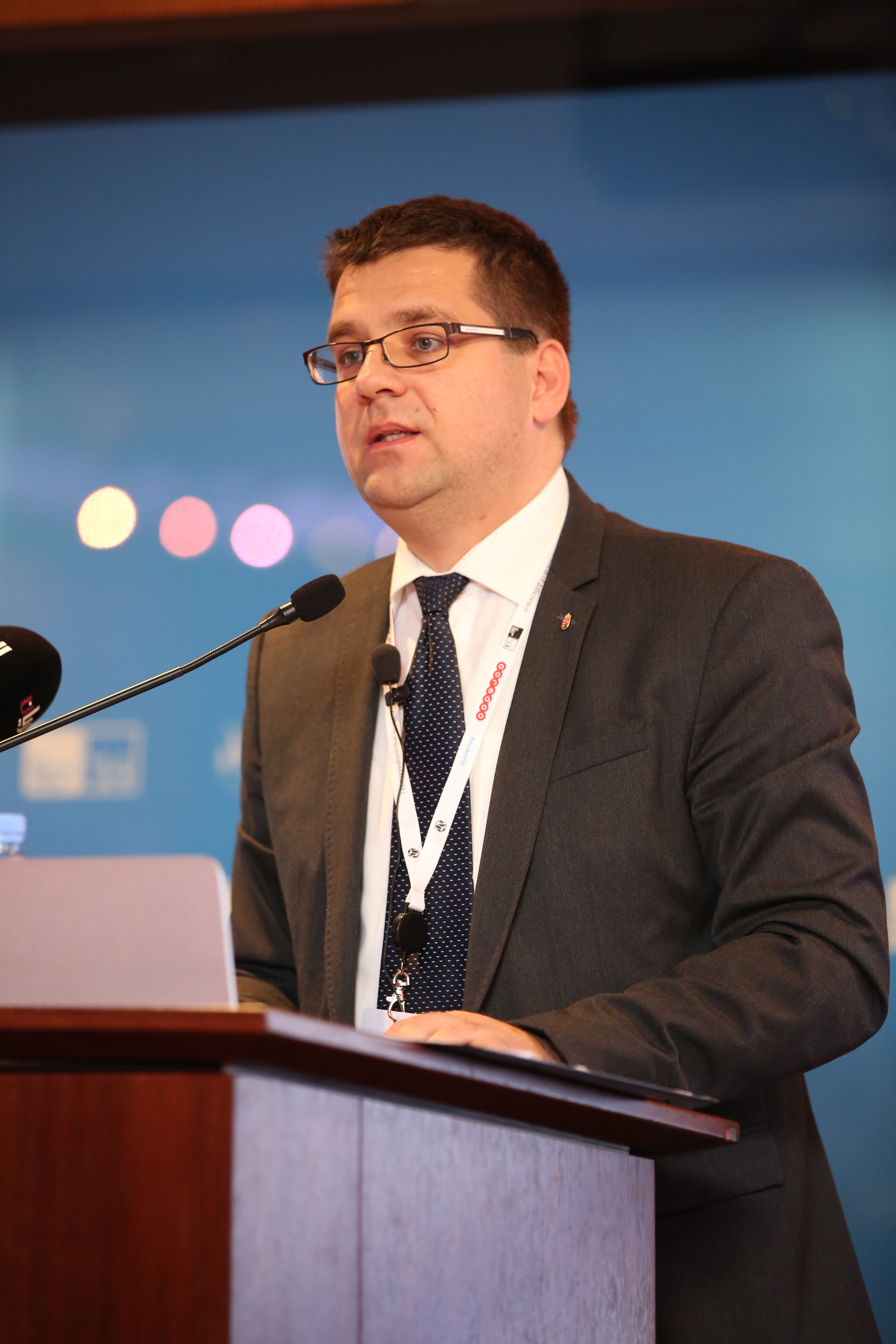 Miklós Seszták, the Minister of National Development of Hungary at the ITU Telecom World 2014 Press Conference